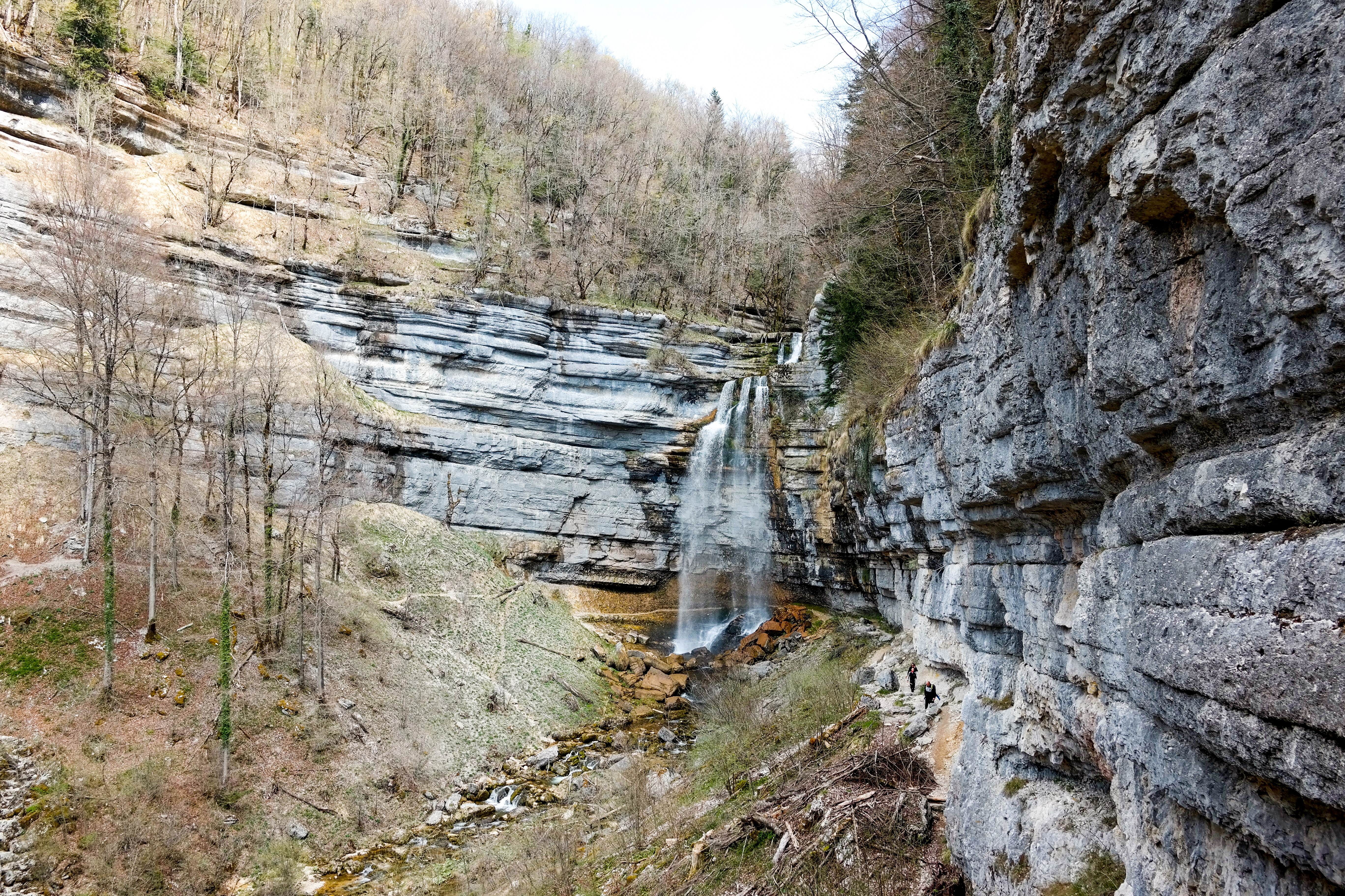 Le Grand Saut